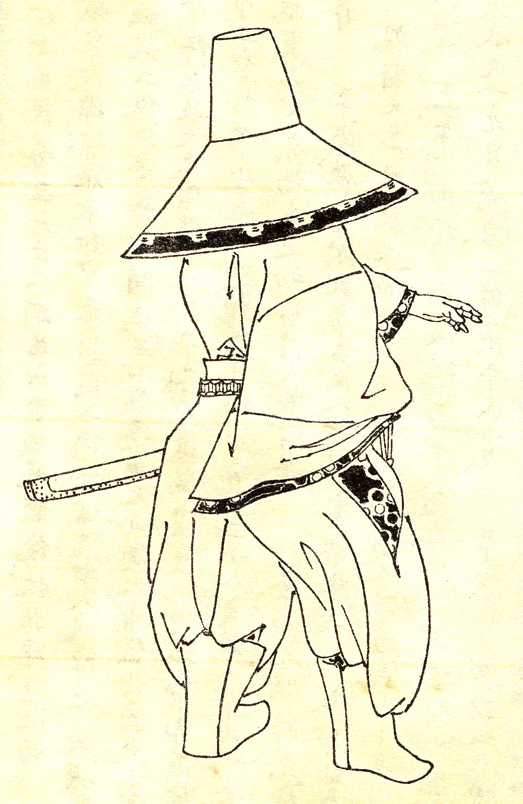 Ki no Natsui(紀夏井) was a was a Japanese politician and court noble in the Heian era.